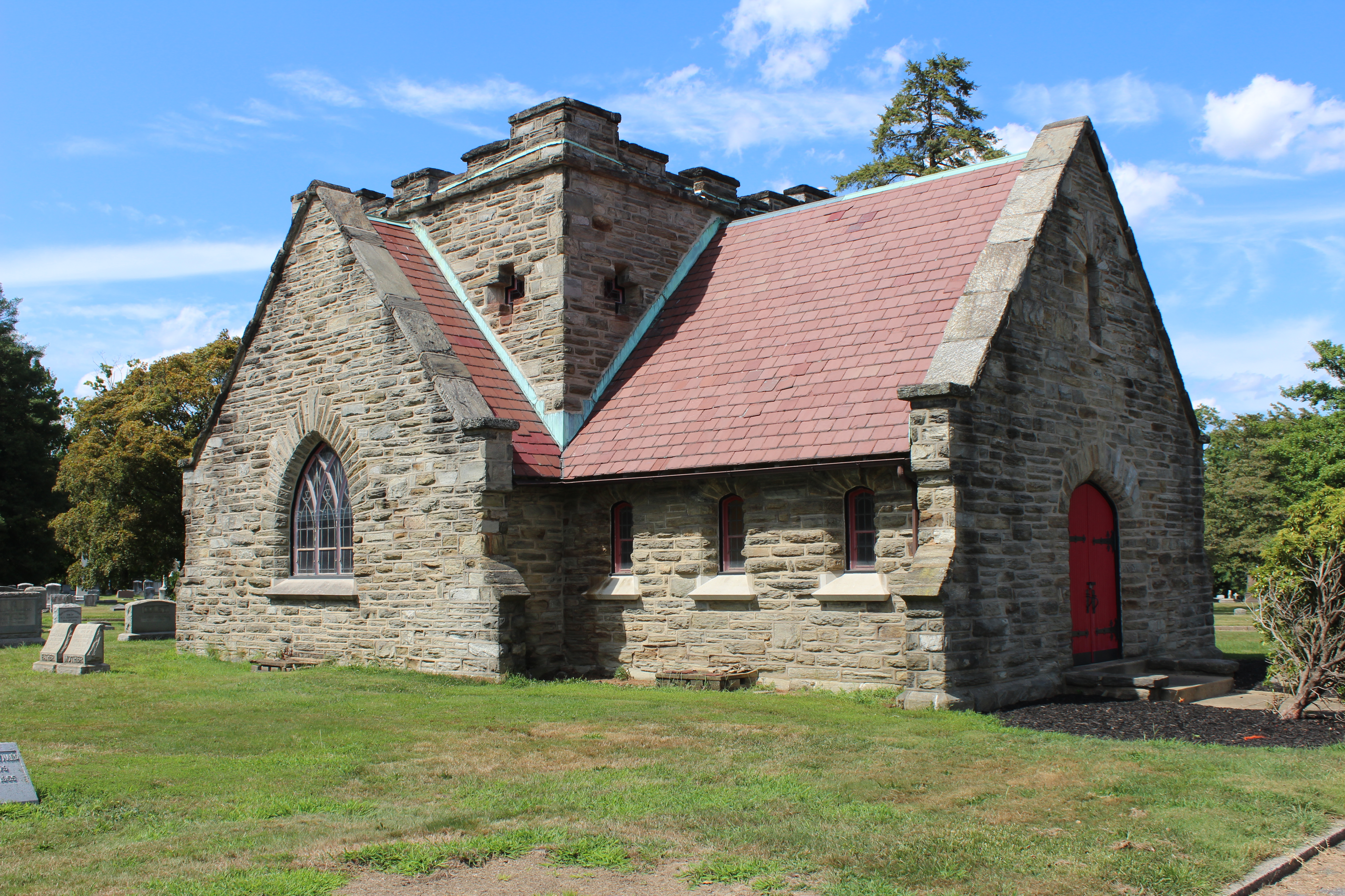 Photo of the chapel at Wilmington and Brandywine Cemetery taken August 2019